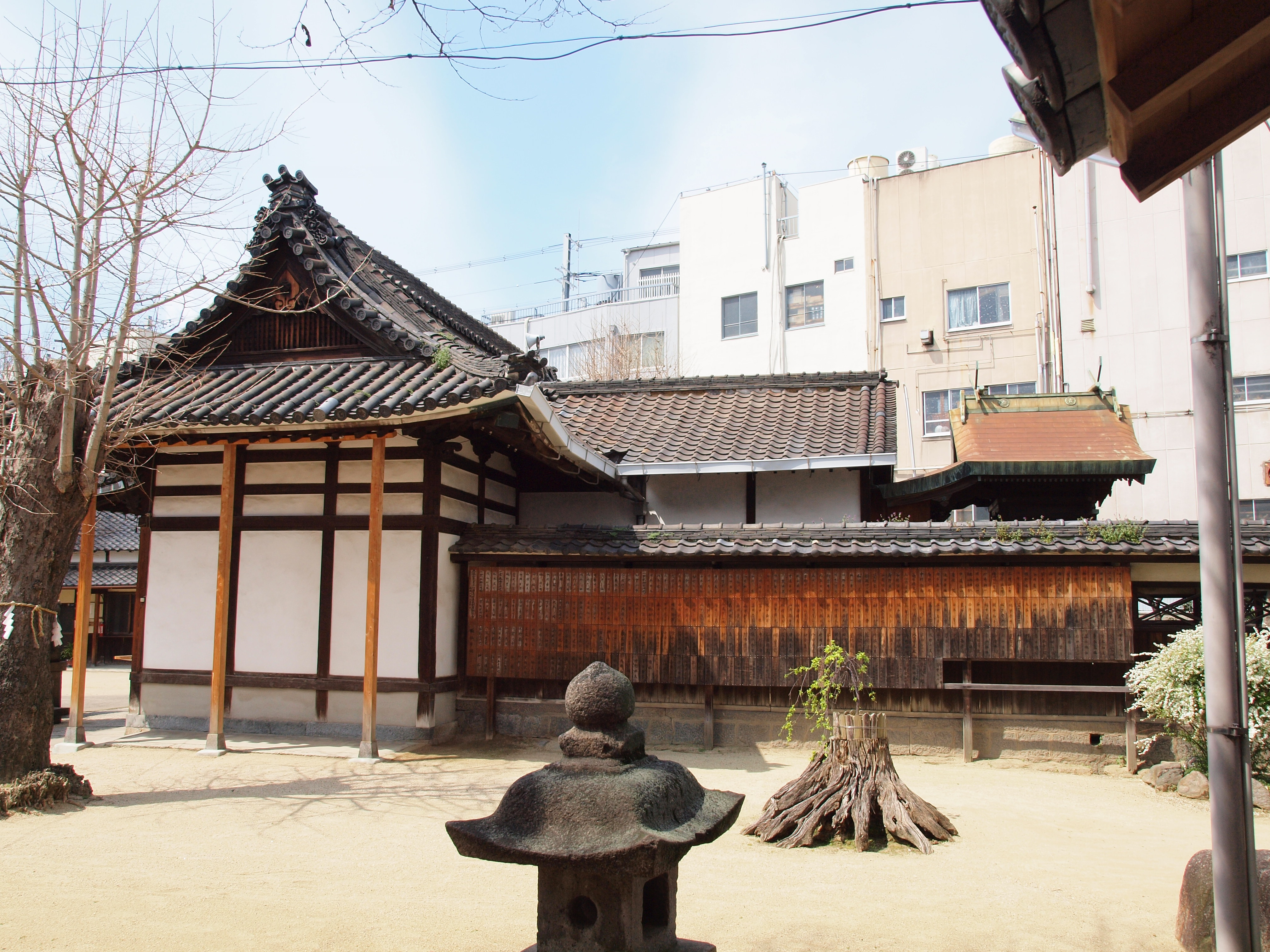 Yao Jinja (Shrine) in Yao, Osaka